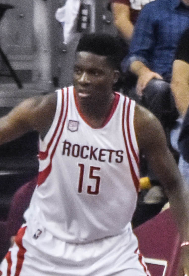 Lebron to the basket